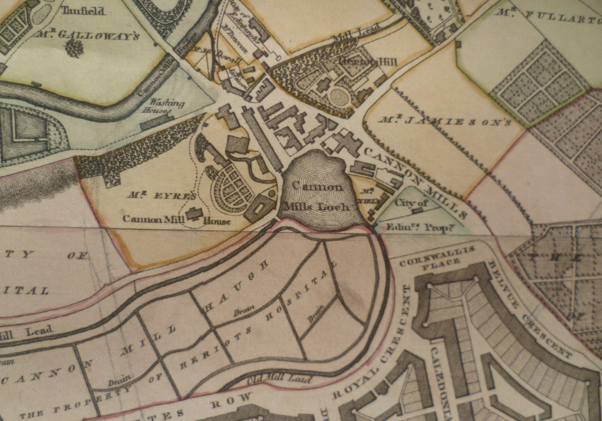 Canonmills Loch shown on the Ainslie map of 1804, after the initial phase of draining.